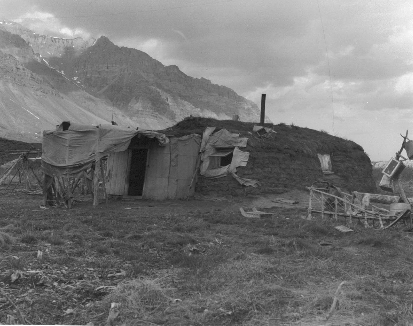 Village of Anaktuvuk Pass in 1957. This village of Nunamiut people was settled in 1949. Picture shows a sod house with a sled in front. FWS keywords: Villages; ARLIS; Alaska Rights Public domain